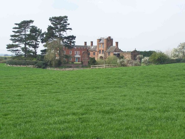 View of Pillaton Old Hall, home of the Littleton family, near Penkridge, Staffordshire. The moated manor eventually became a ruin, but the gatehouse and chapel were restored in the 1880s by Lord Hatherton.